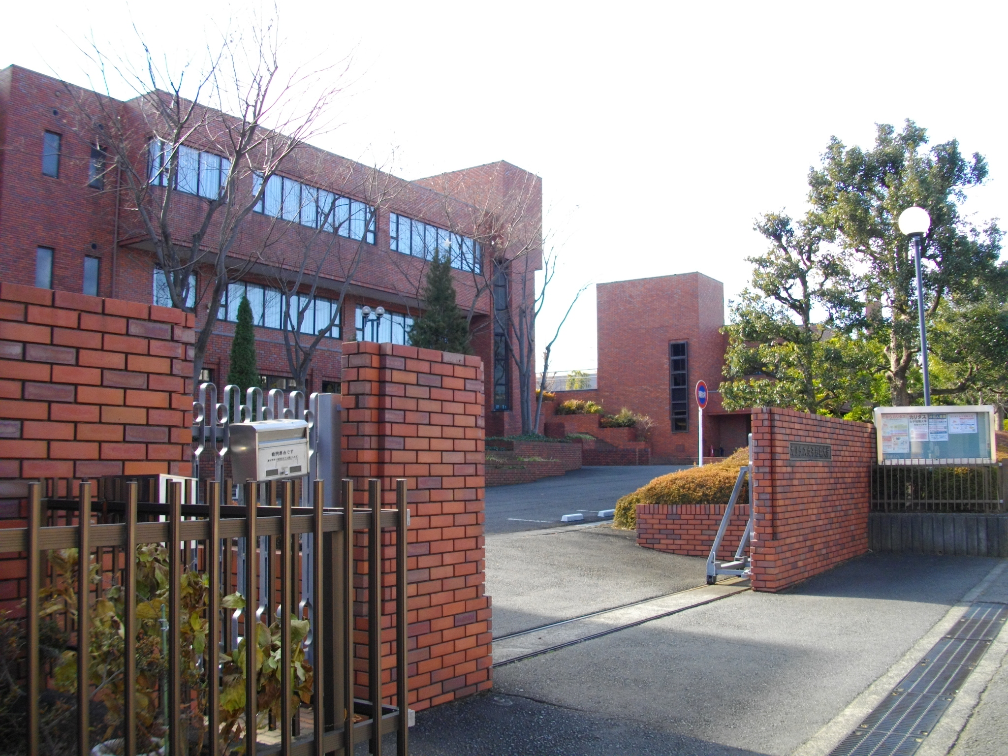 Caritas Junior College